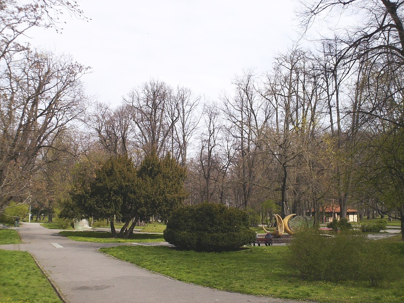 City Park in Legnica